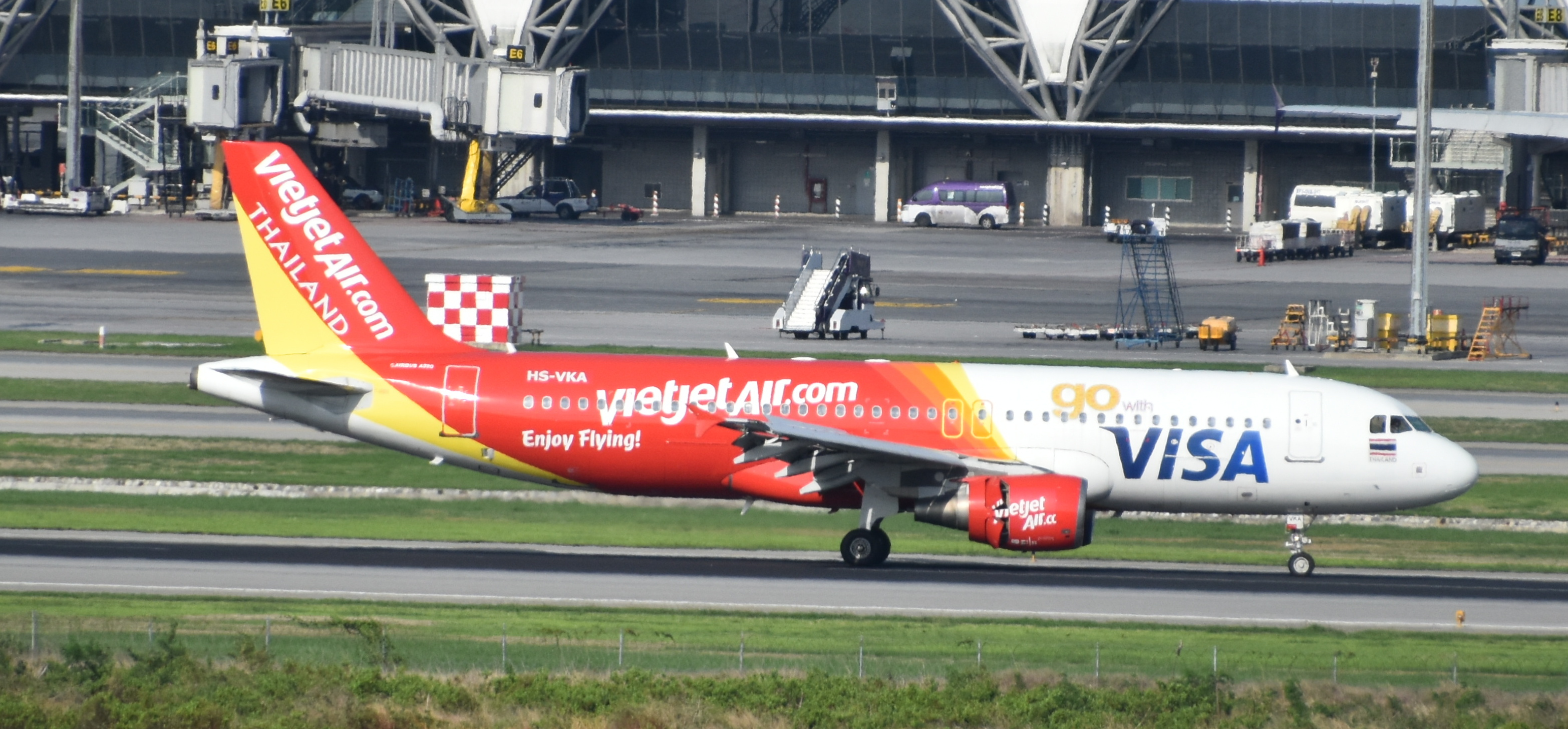 Airbus A320 of Thai VietjetAir,with add'l."go with Visa" titles, arriving rwy.19R at Bangkok-BKK, Thailand 07/06/16.